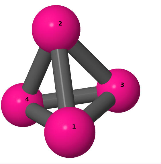 Simple cubic Hamiltonian graph with 4 vertices, vertex enumeration indicates a Hamiltonian cycle. Tetrahedron graph K4.